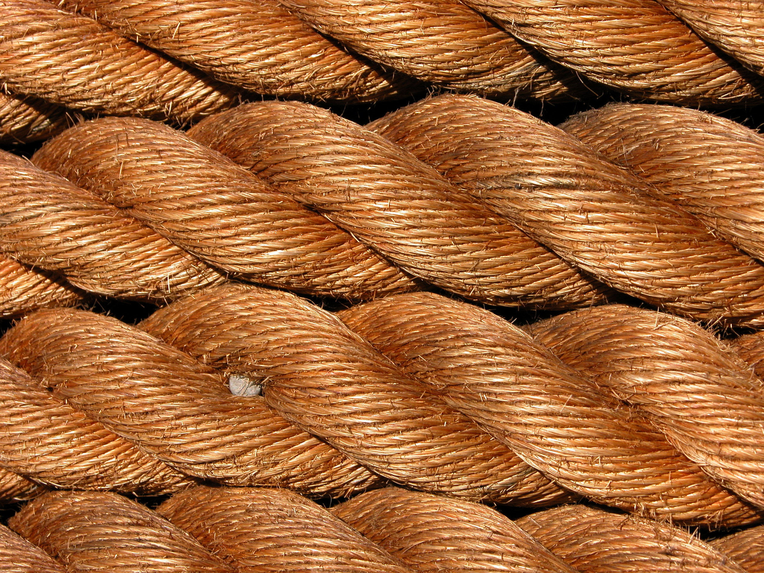 Closeup of some brown ropesuntitled